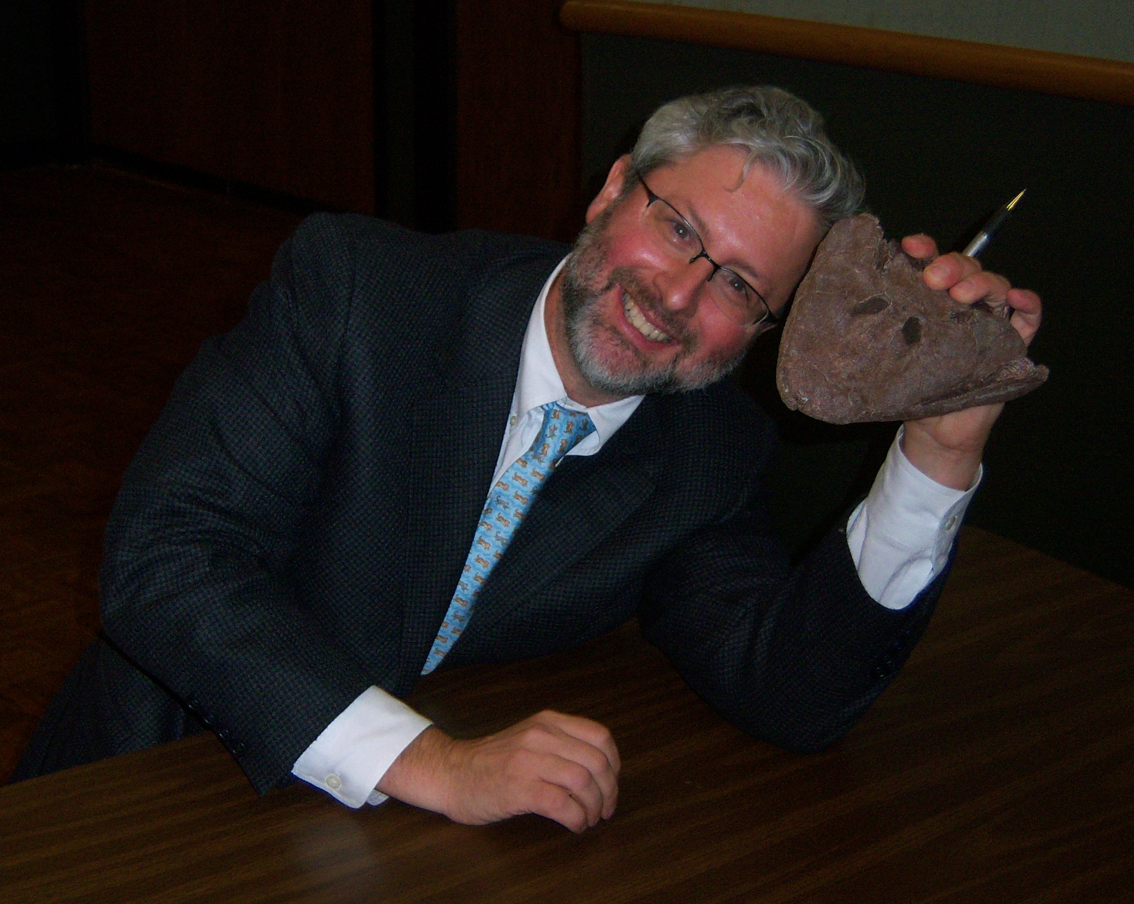 Neil Shubin at the University of Tulsa, with a cast of a Tiktaalik skull